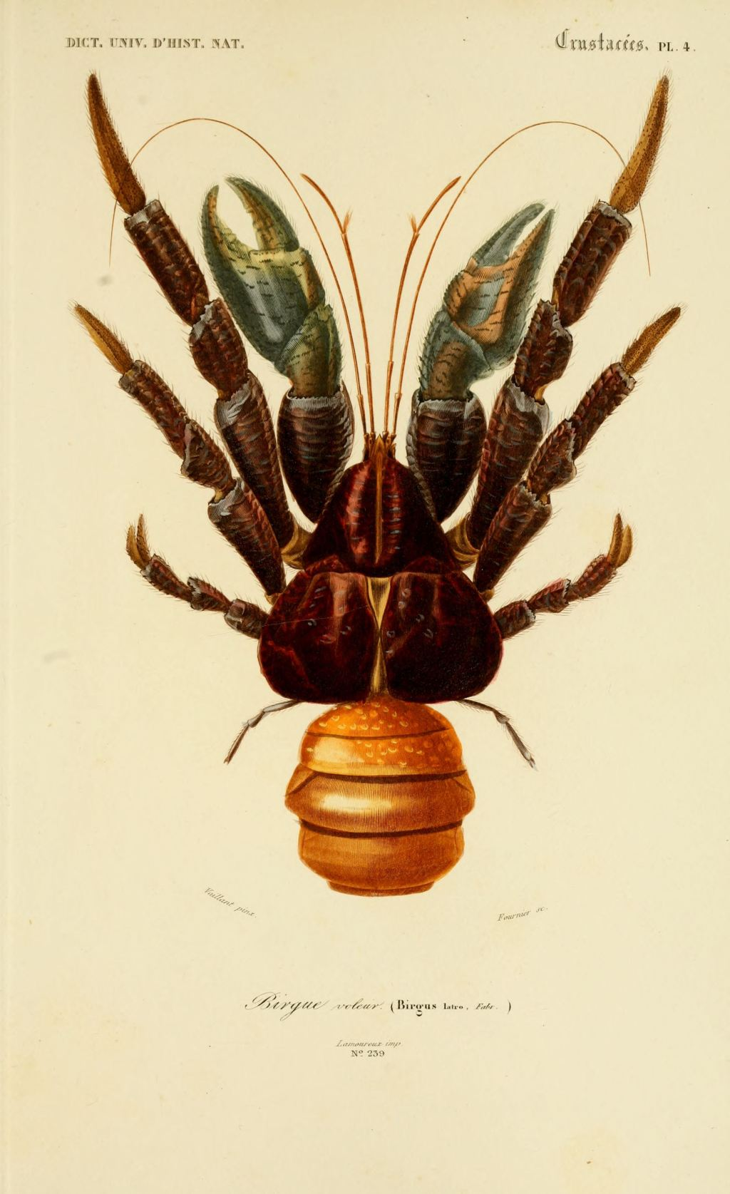 Figure showing a coconut crab